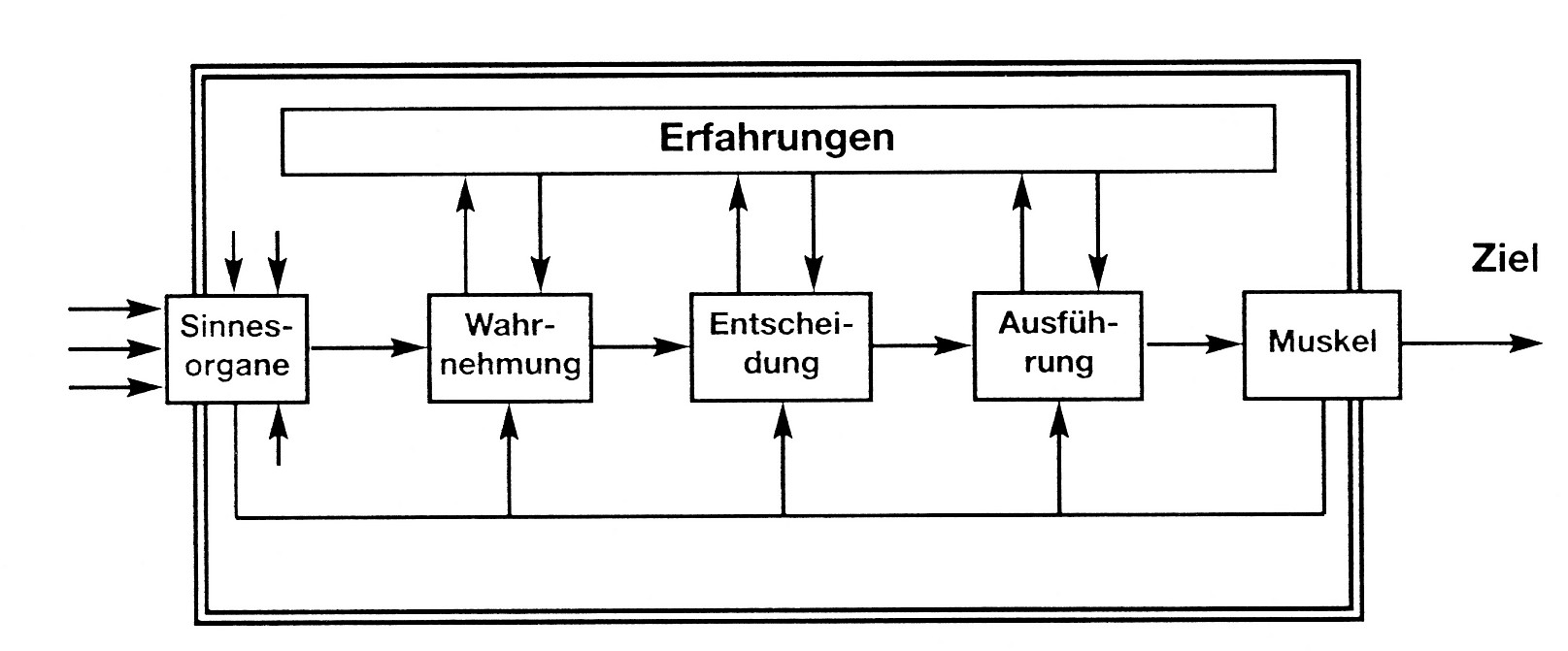 Modell zur Theorie der Informationsverarbeitung im Menschen